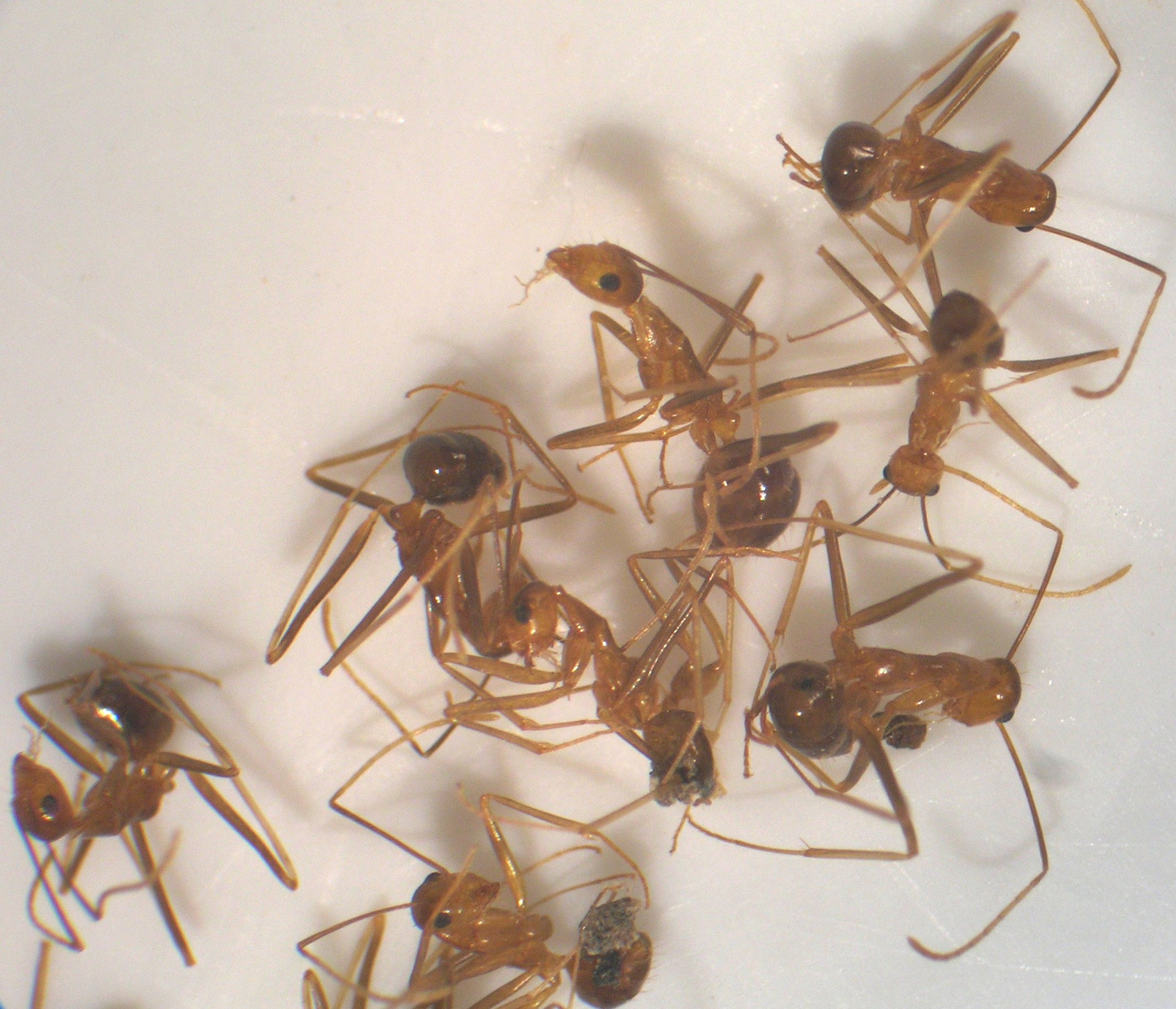 Anoplolepis gracilipes from Hawai'i.